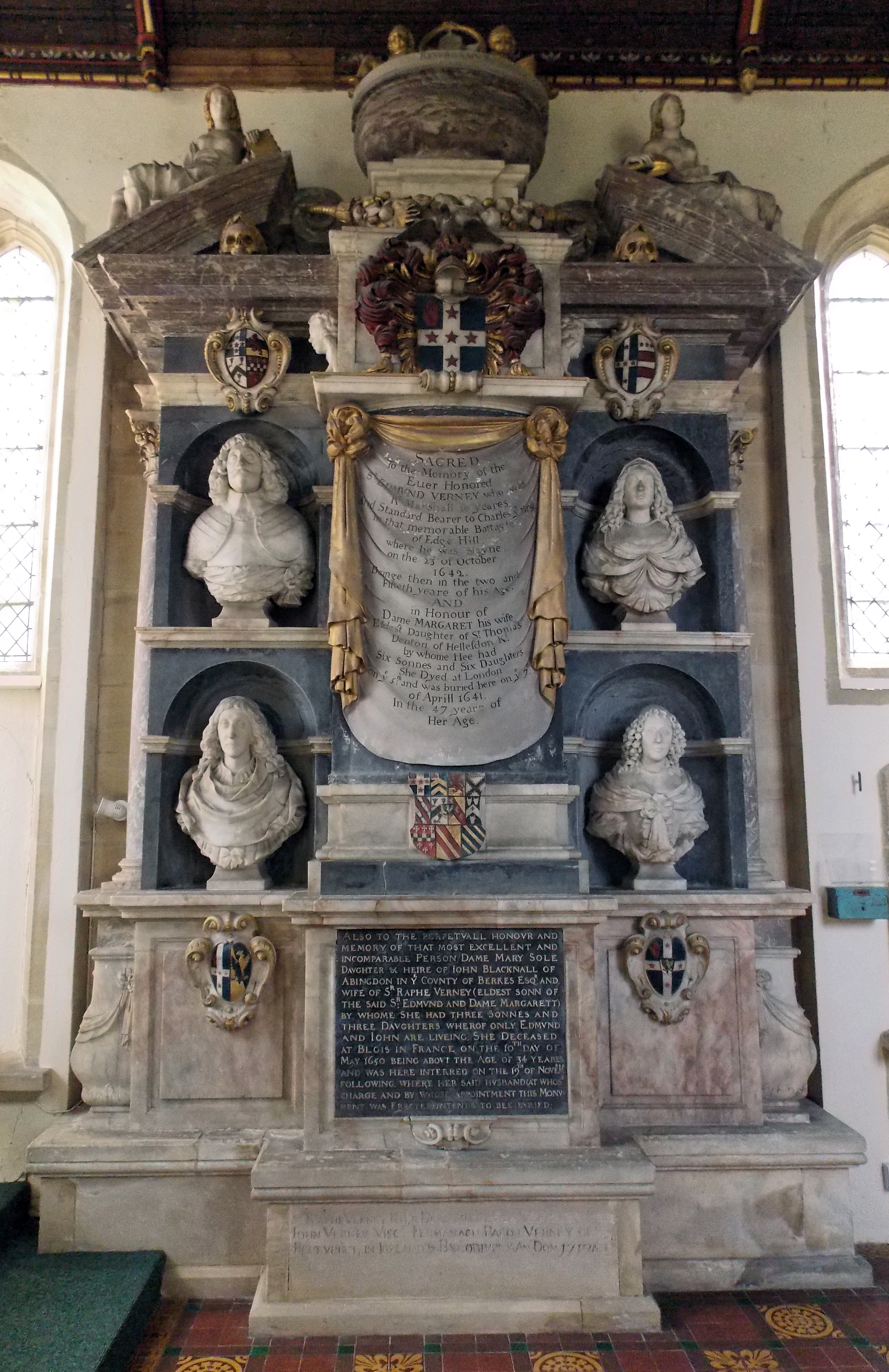 Chancel memorial monument to members of the Verney family, in the parish Church of All Saints, Middle Claydon, Buckinghamshire, England.Software: JPEG file optimized and/or cropped and/or spun with DxO OpticsPro 10 Elite and Adobe Photoshop CS2.